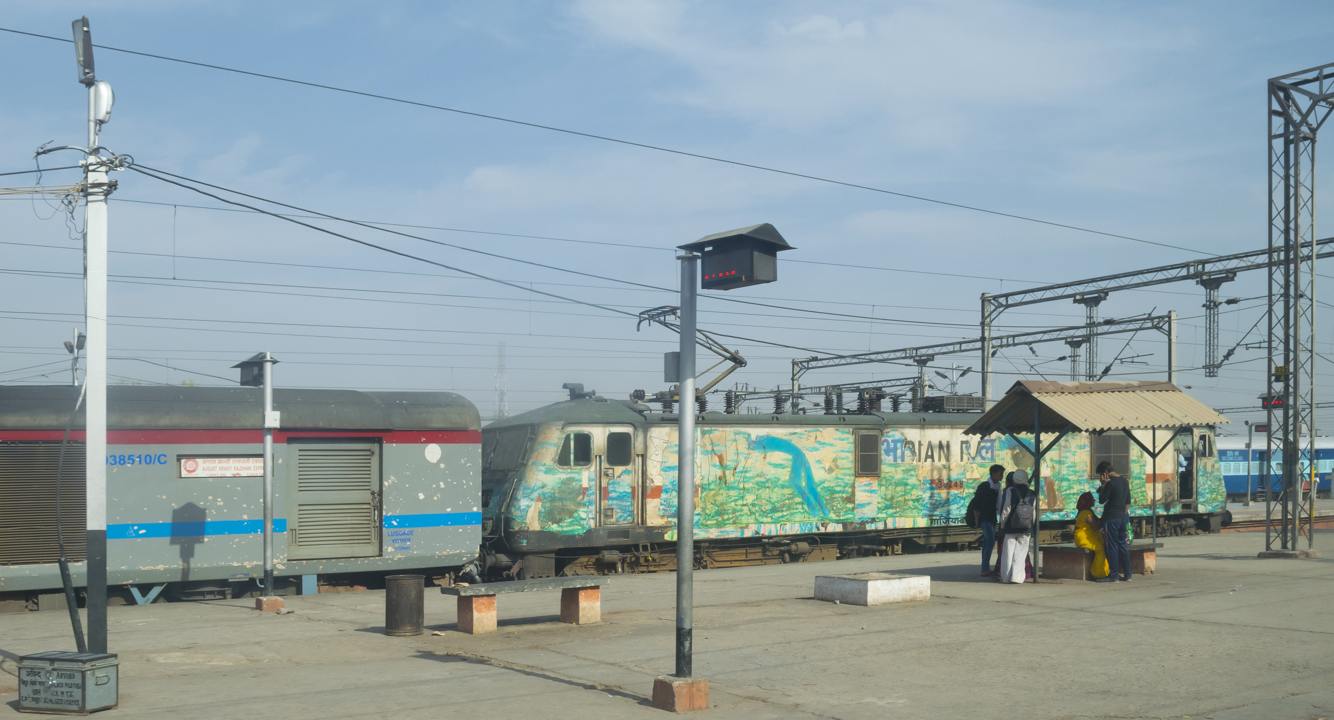 An August Kranthi Rajdhani with Ghaziabad WAP7 at Mathura Junction